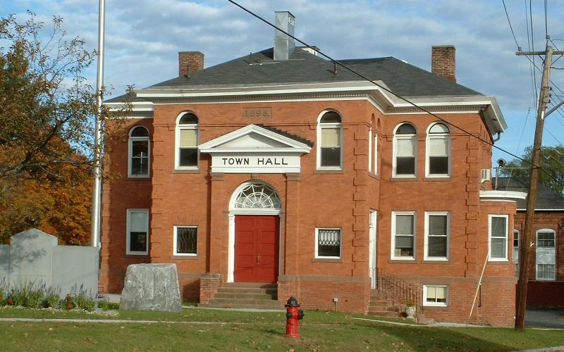 The town hall of Cheshire, Massachusetts is featured on the town seal. 80 Church St, Cheshire, MA